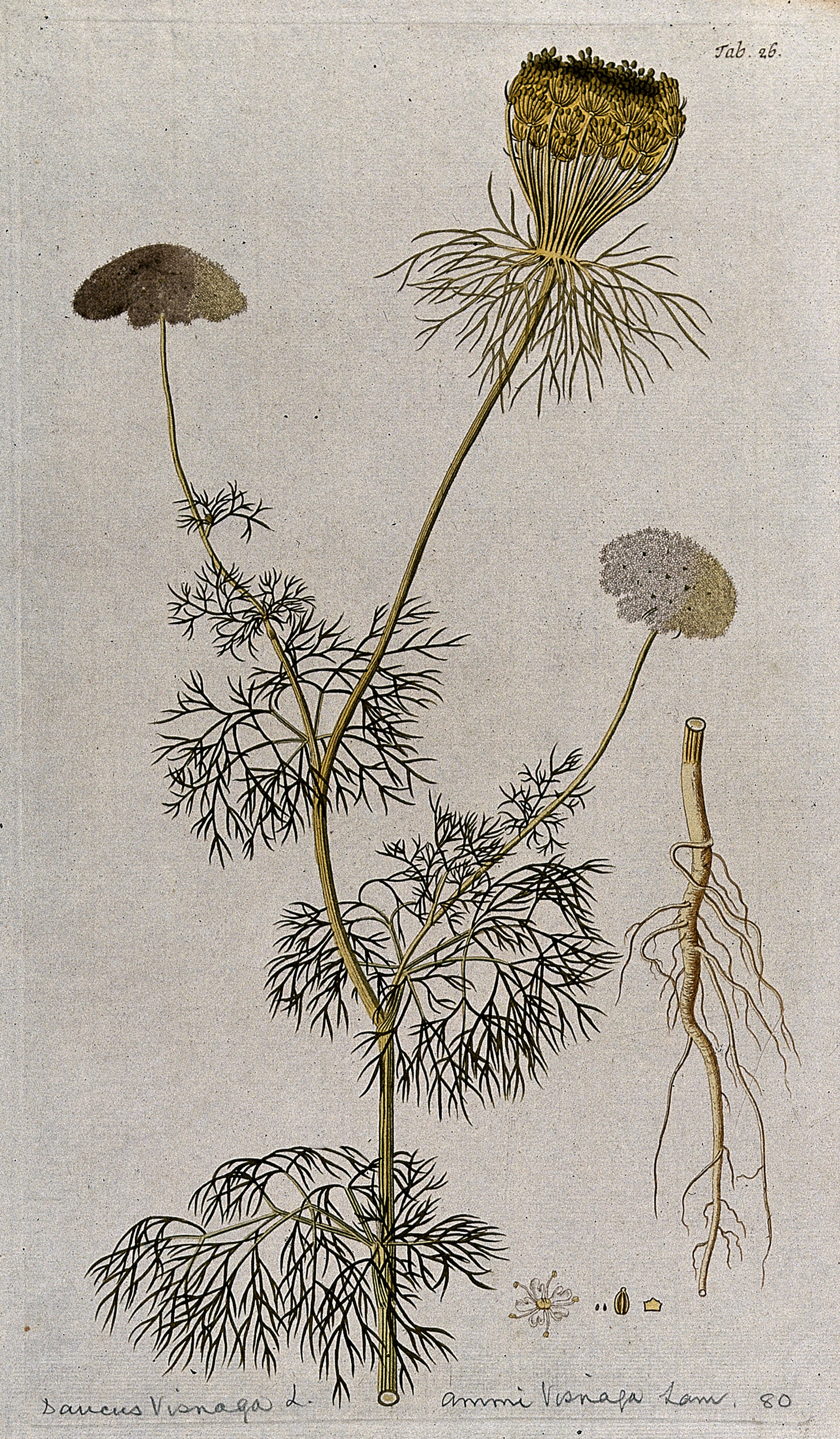 Khella (Ammi visnaga (L.) Lam.): flowering and fruiting stem with separate root, flower and fruit. Coloured engraving after F. von Scheidl, 1776. Iconographic Collections Keywords: Ammi; visnaga; Nikolaus Joseph Jacquin; Asthma; Franz Anton von Scheidl